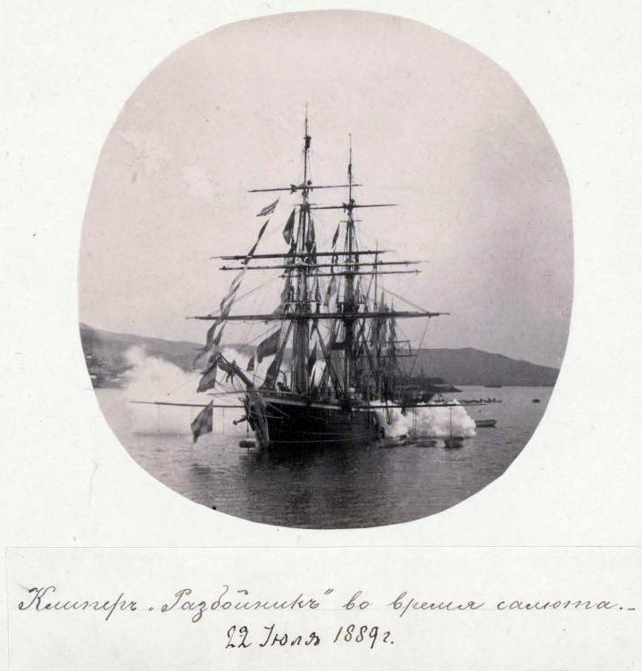 Salut_of_Clipper_on_river_Anadir